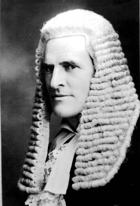 photograph portrait of Judge H.B.D. Woodcock, private family archive, no copyright